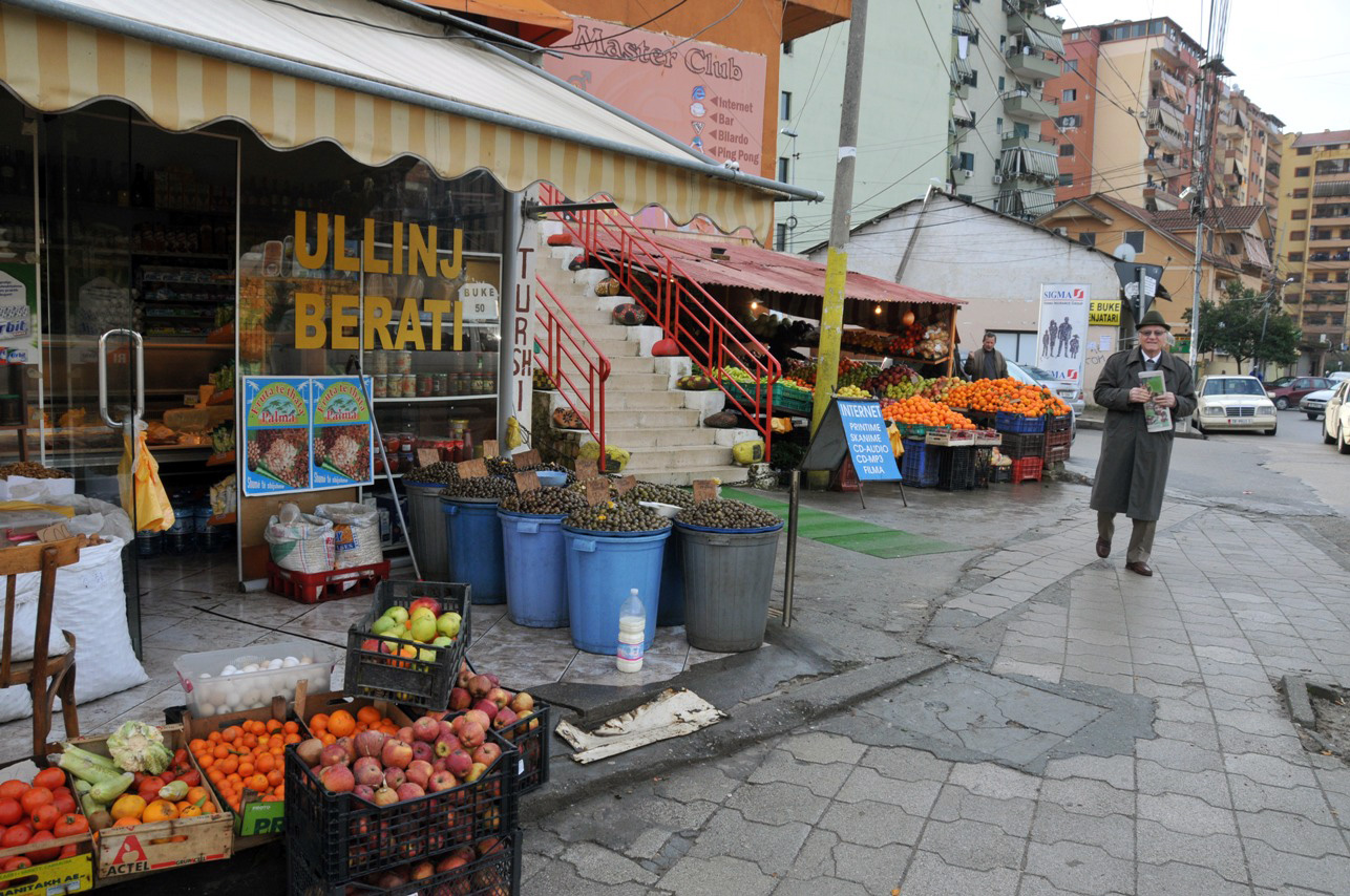 Street in Tirana